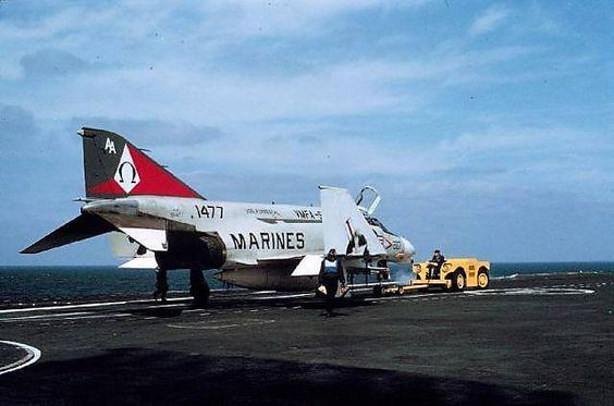 A U.S. Marine Corps F-4B Phantom II fighter (BuNo 151477) of Marine Fighter Attack Squadron VMFA-531 Grey Ghosts on the Royal Navy aircraft carrier HMS Ark Royal (R09). VMFA-531 was assigned to Attack Carrier Air Group 17 (CVW-17) aboard the aircraft carrier USS Forrestal (CVA-59) for a deployment to the Mediterranean Sea from 22 September 1972 to 6 July 1973. However, the F-4B 151477, tail code AA-207, operated from the Ark Royal from 23 February to 6 March 1973. During that time it carried the squadron markings of No. 892 Squadron, Ark Royal´s F-4K squadron, on its fin.